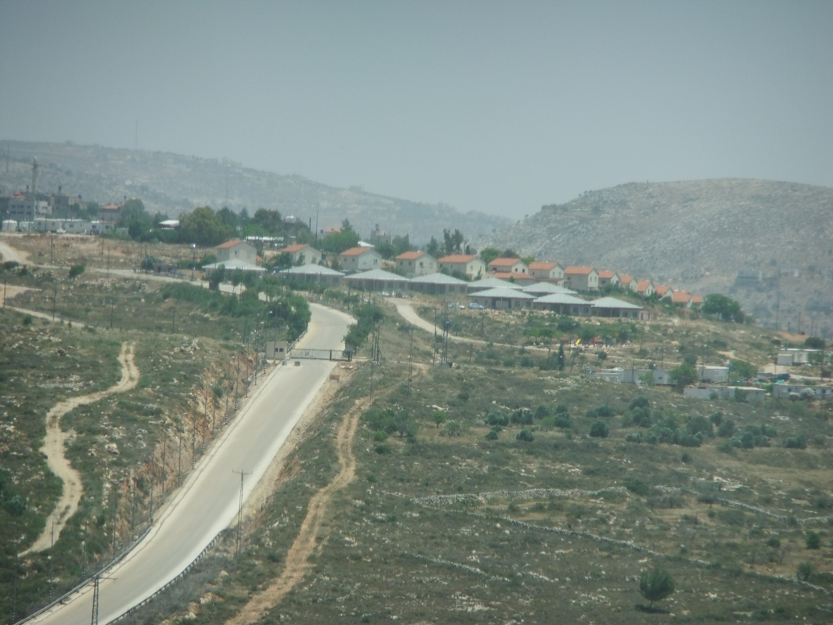 Rechelim from the west